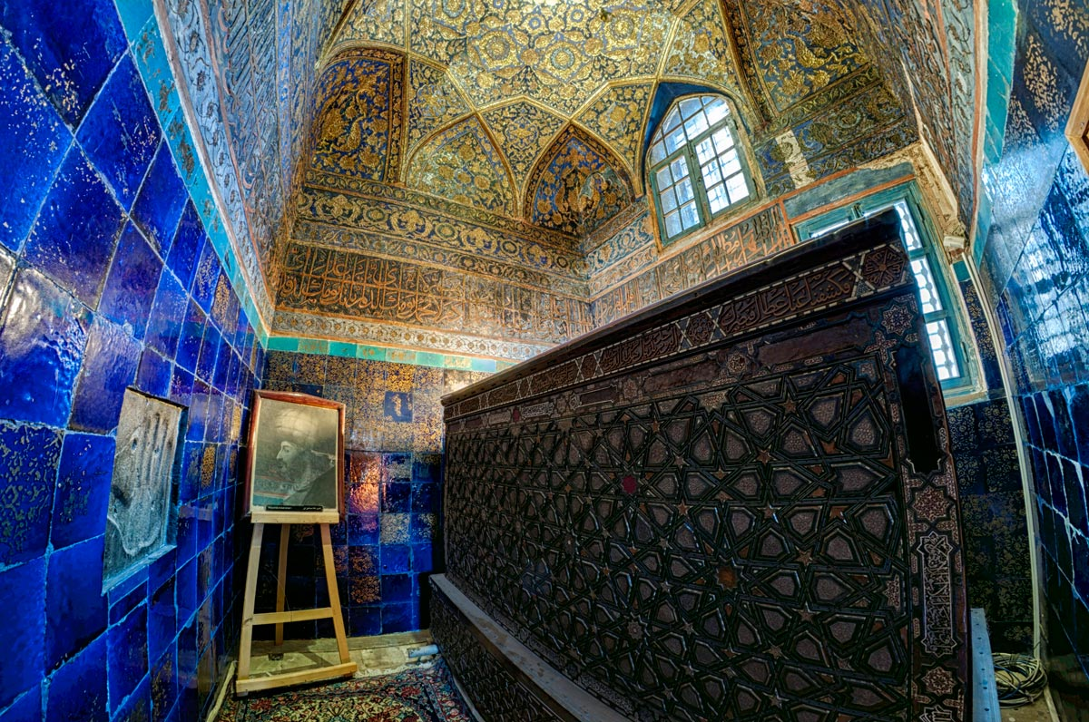 The Mausoleum of Shah Ismail I from Safavid Dynasty